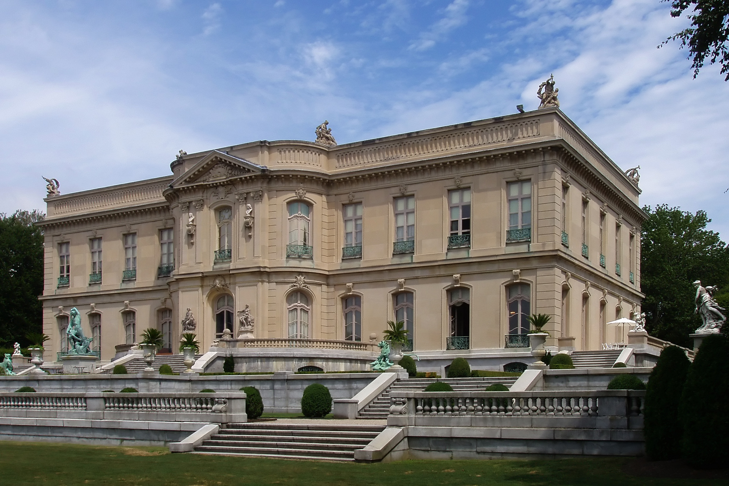 The Elms, Newport, Rhode Island. View from Great Lawn at the rear of the house. Photograph by me, August 2005.